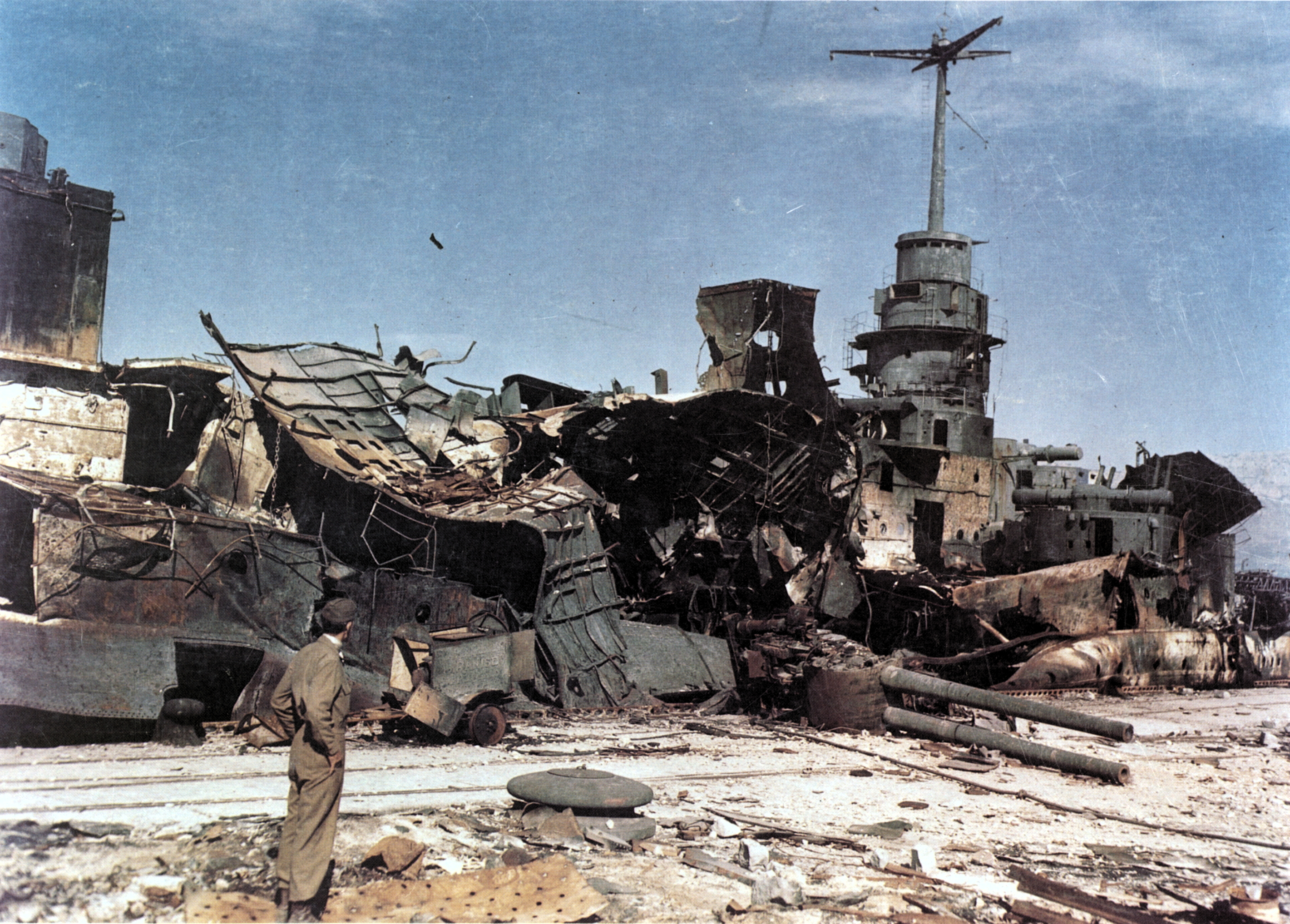 The French battleship after being partially scrapped